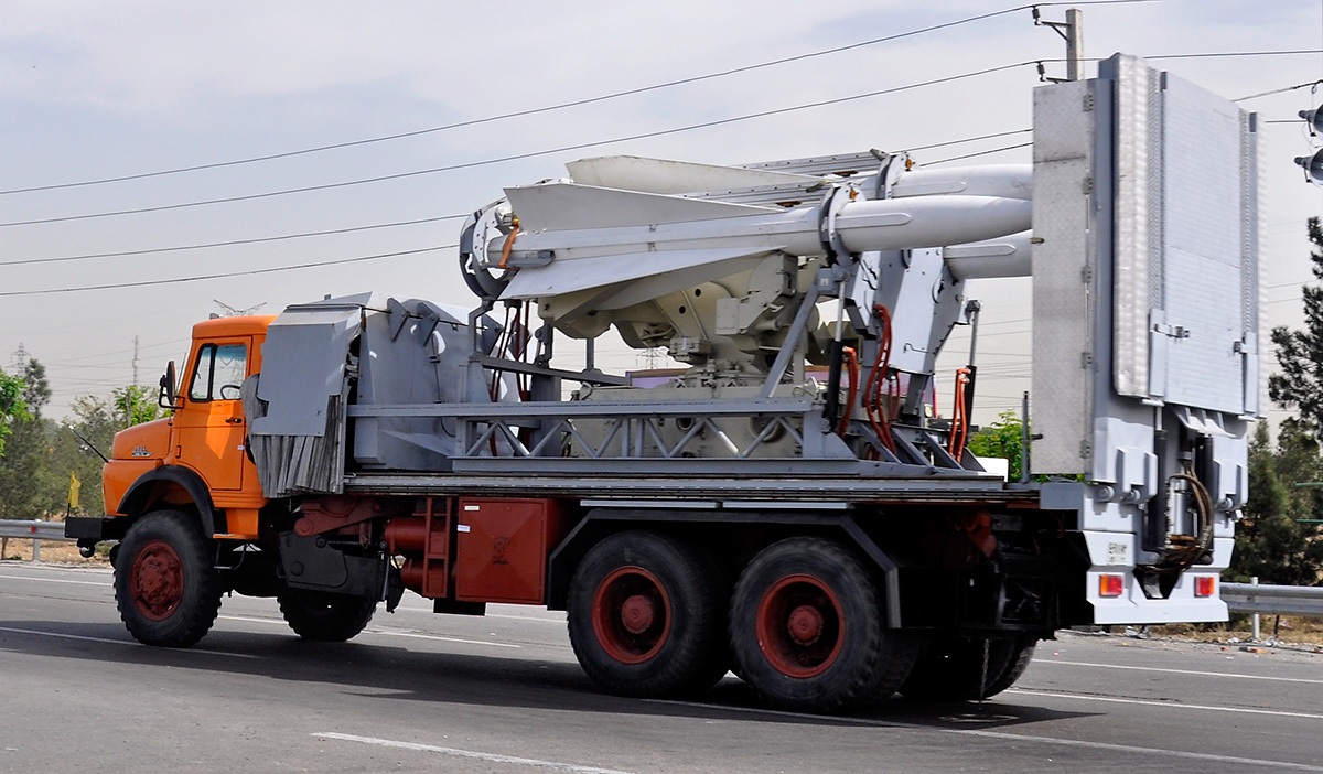 Iranian mobile Hawk launcher, Ghader